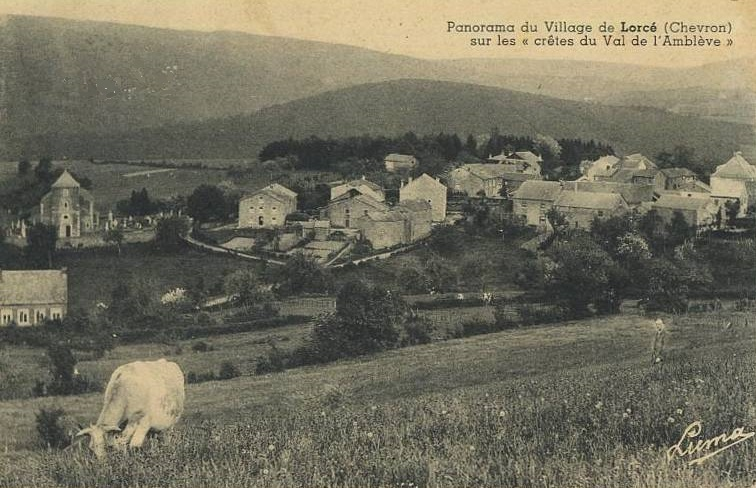 The village of Lorcé in the Ardennes, c. 1905-1910. As with many other villages and hamlets of the region, Lorcé belonged to the Princely Abbey of Stavelot-Malmédy for centuries.